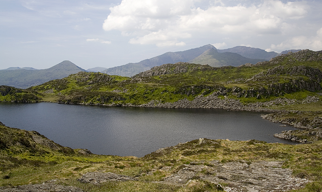 Llyn Edno. View from the northern slopes of Ysgafell Wen. Yr Aran and the Snowdon massif form the skyline beyond.